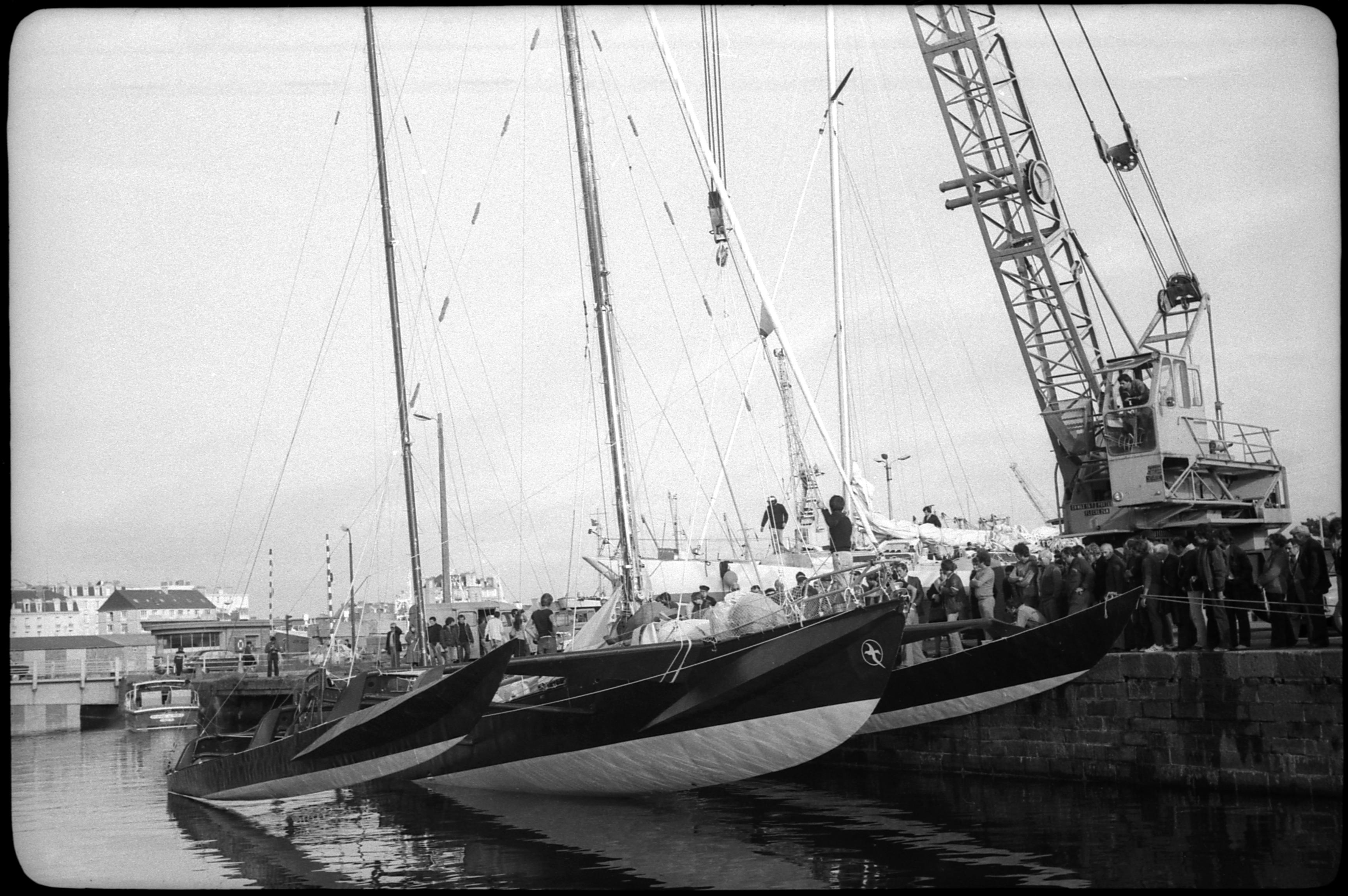 Manureva, the trimaran of Alain Colas. Photo taken in Saint-Malo (France) a few days before the start of the first transatlantic yacht race, «Route du Rhum».